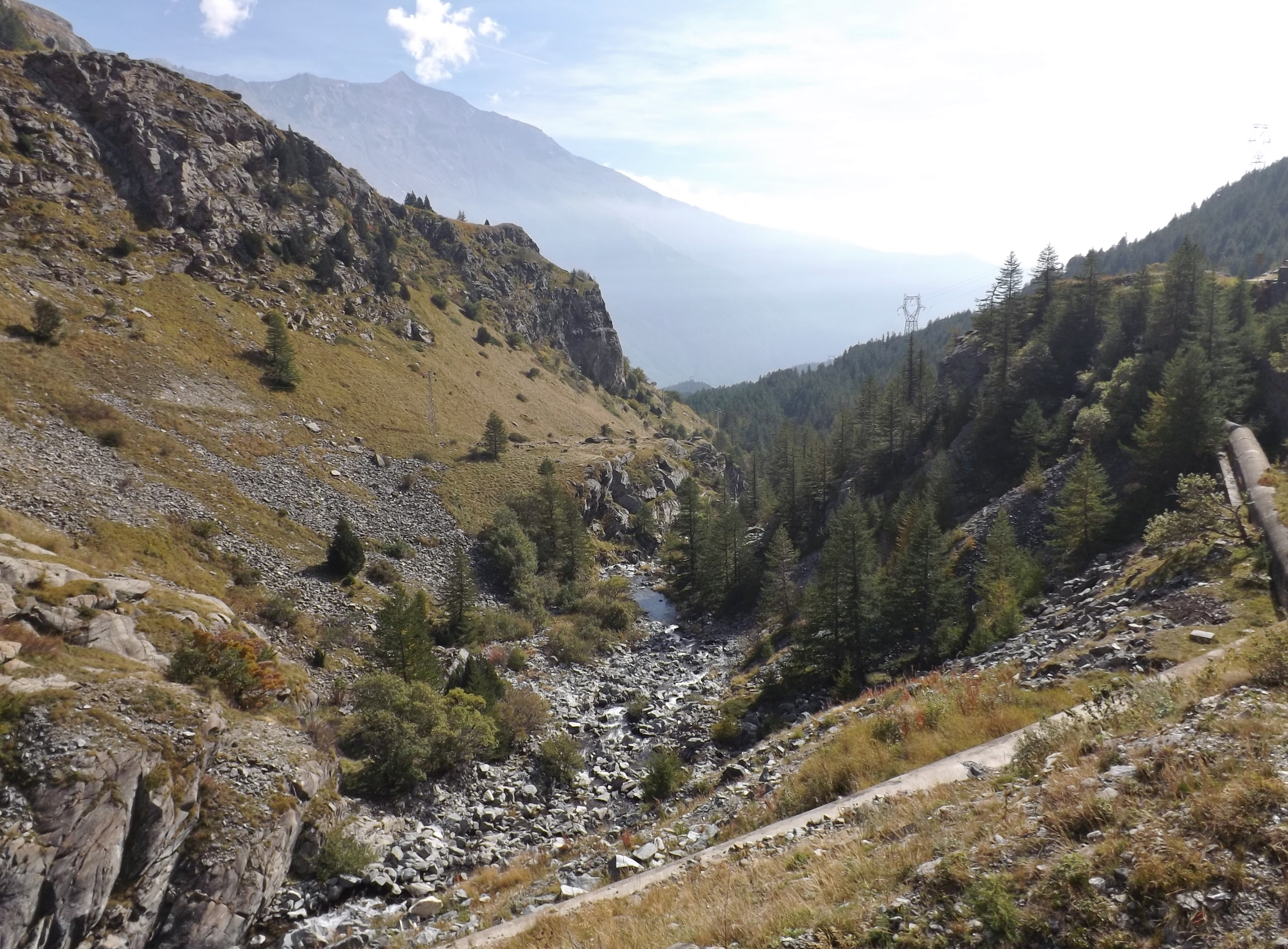 Sight of the Cenise torrent, on its last meters in Savoie, on the French territory, prior to enter Italy where it is called Cenischia.